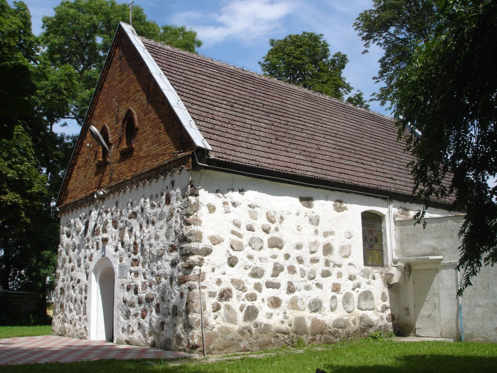 Church in Stara Dąbrowa, Poland, Western Province, Stargard district, commune Stara Dąbrowa